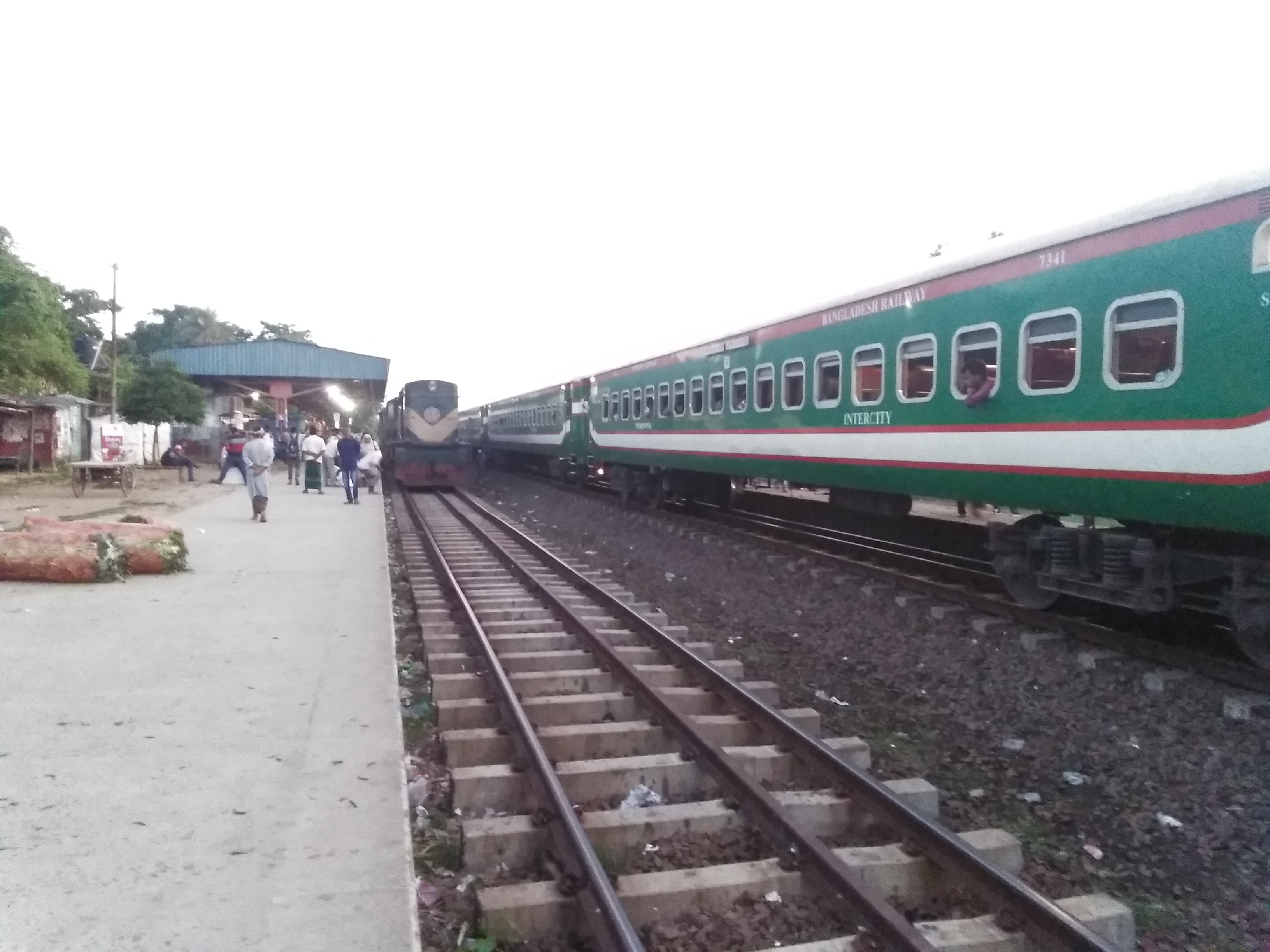 The Panchagarh Express halted for a crossing